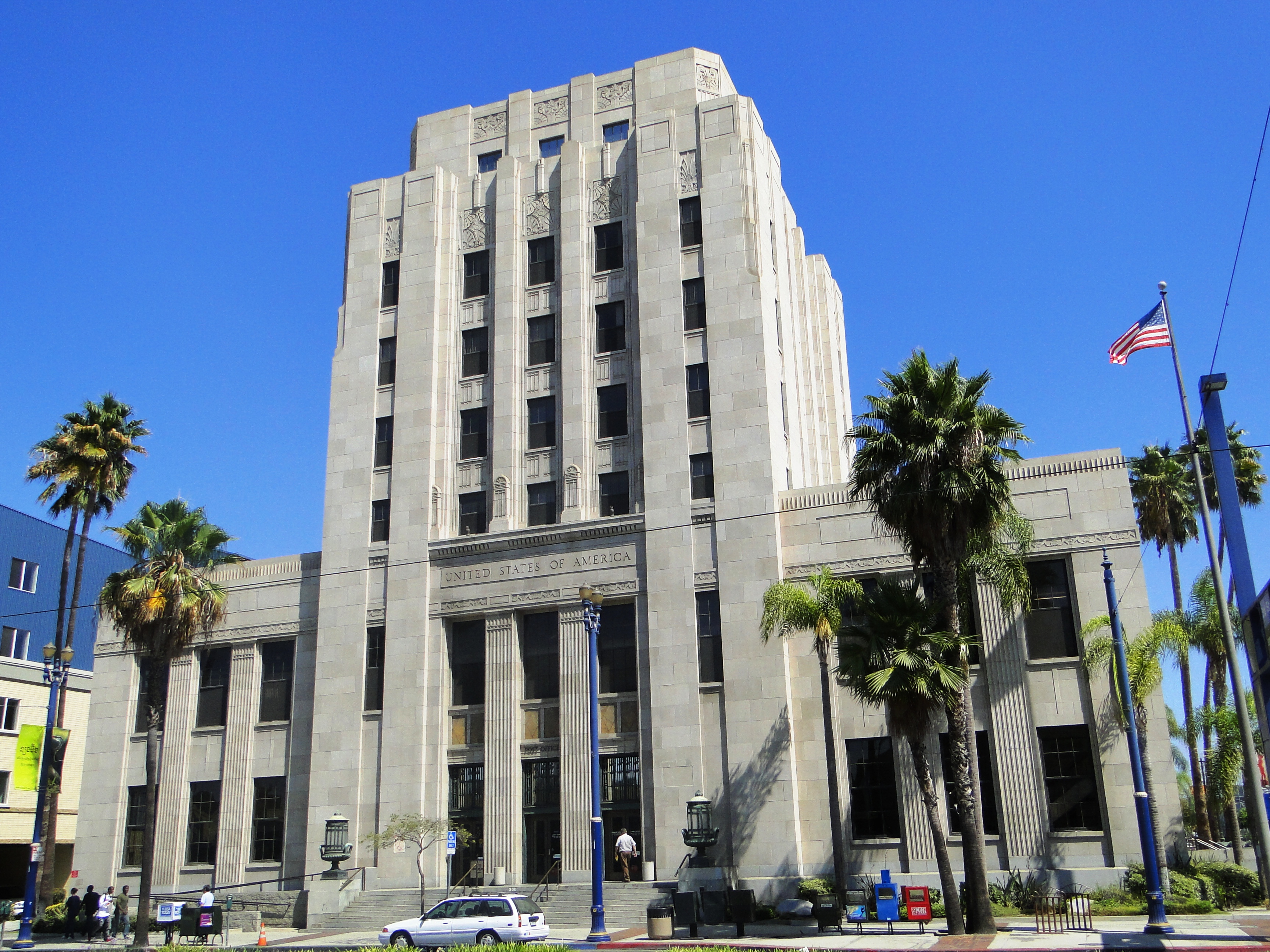 U.S. Post Office - Long Beach Main. 300 Long Beach Blvd., Long Beach, California. Building by the Works Progress Administration (WPA) in the Art Deco moderne style, on the National Register of Historic Places.